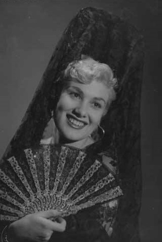 Ines Fernandez- actriz